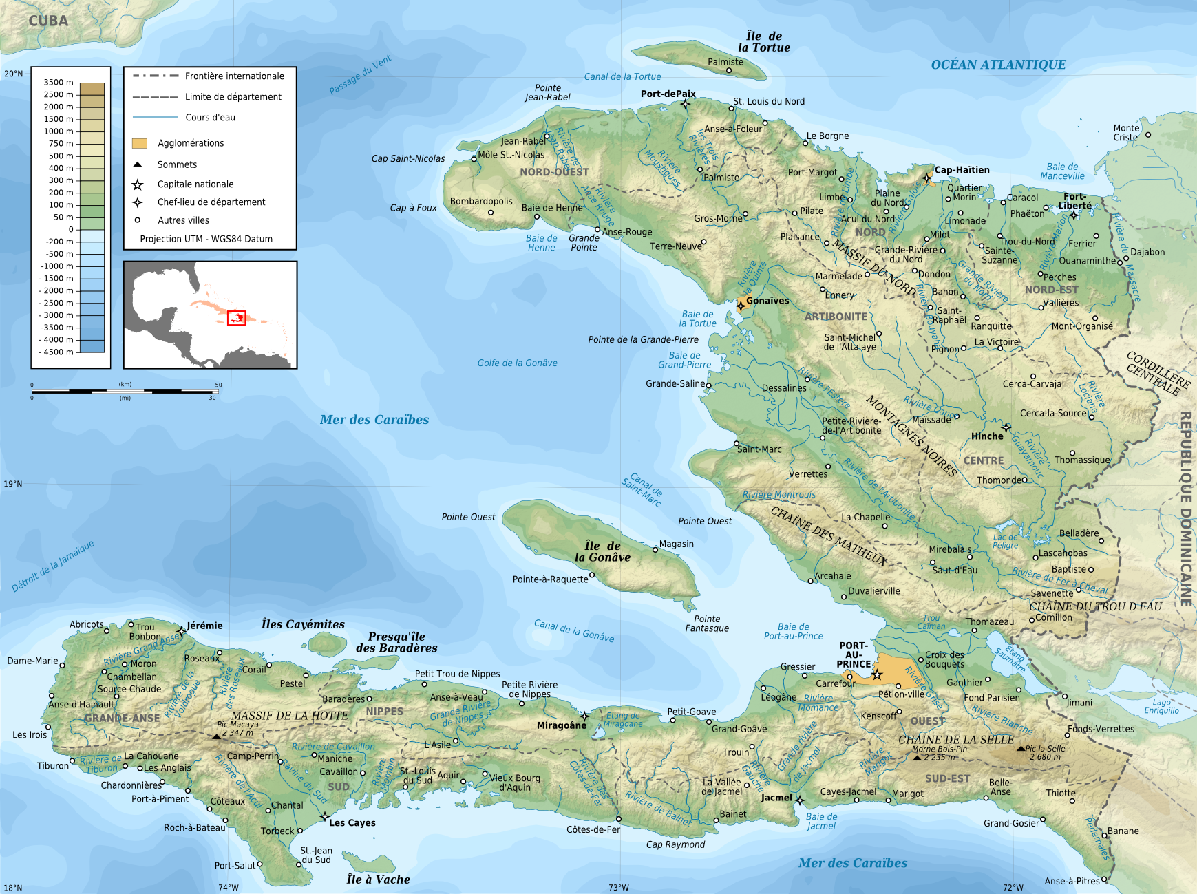 Topographic map of Haiti in French. Use the SVG version for translations and alterations, then update this one.